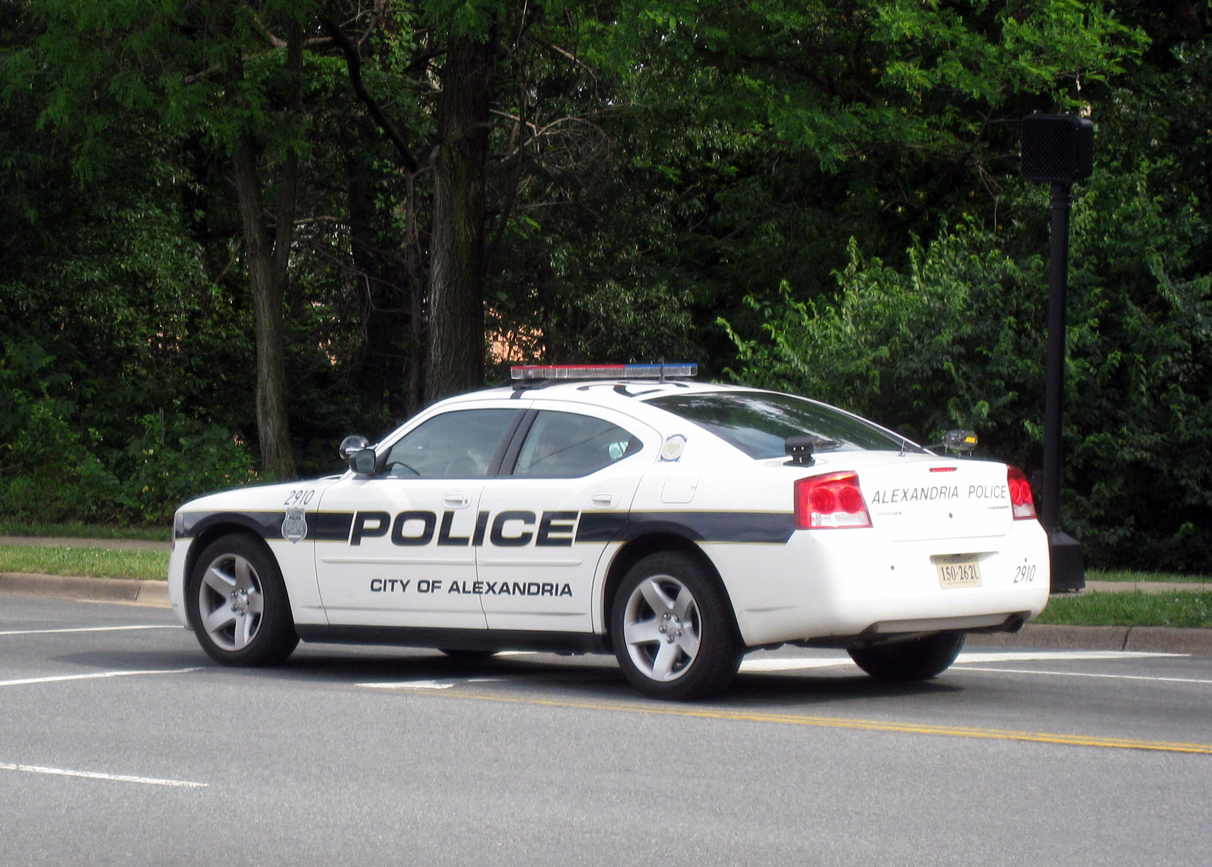 A City of Alexandria Dodge Charger police car equipped with mobile ANPR produced by ELSAG North America (Mobile Plate Hunter 900). Two forward facing ANPR units are mounted on the trunk of this vehicle.